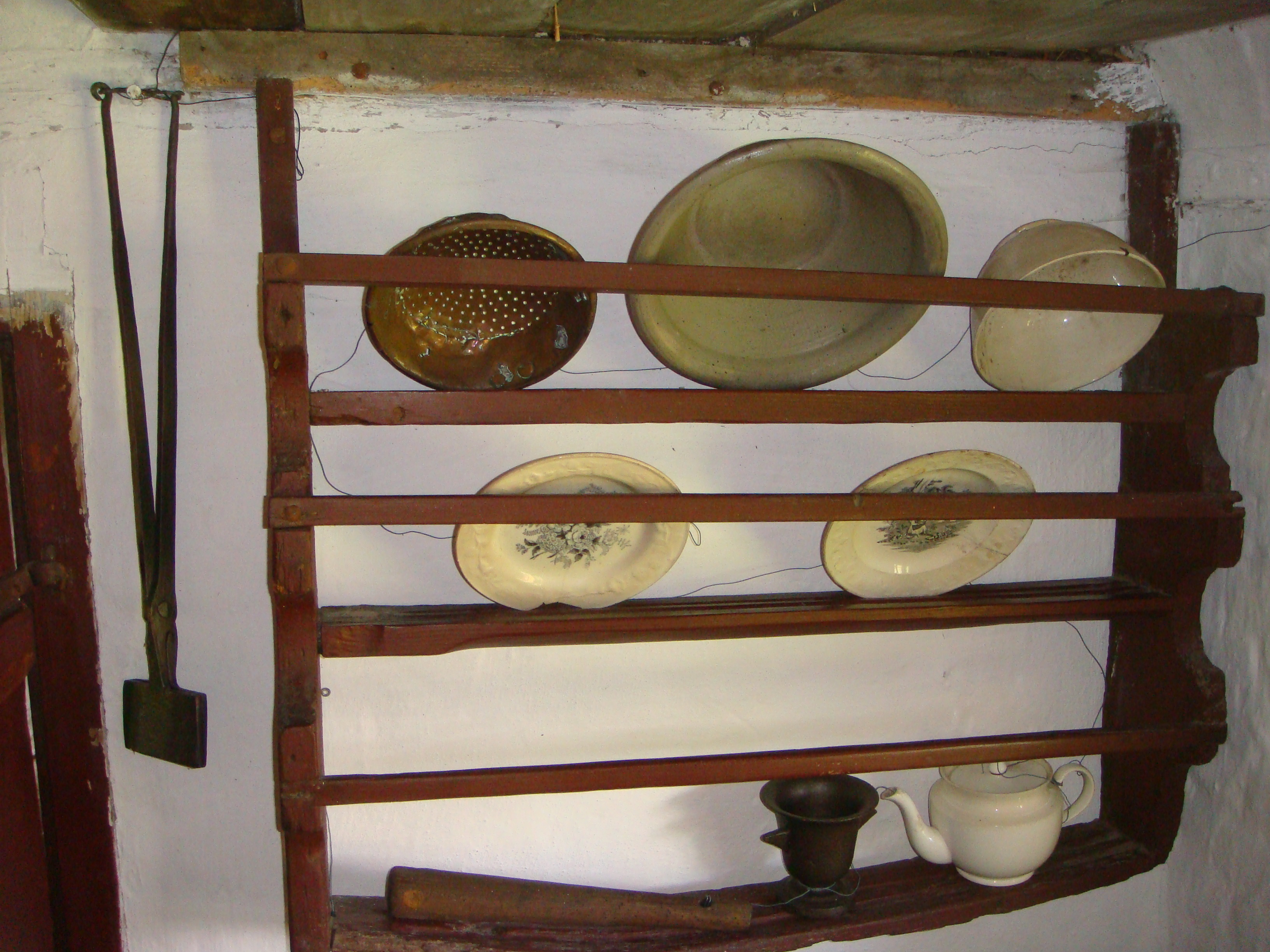 Plate rack in the main room of the farm from Vemb at the Open-Air Museum. A cookie/cake iron press hangs next to it.